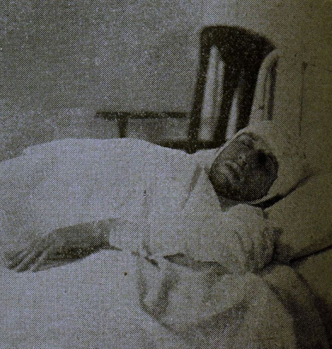 Enrique Barros, uno de los tres presidentes de la Federación Universitaria de Córdoba (Argentina), luego de ser operado por las lesiones cerebrales causadas por los golpes que le propinó un grupo de choque del Comité Pro Defensa de la Universidad, durante la Reforma Universitaria de 1918.